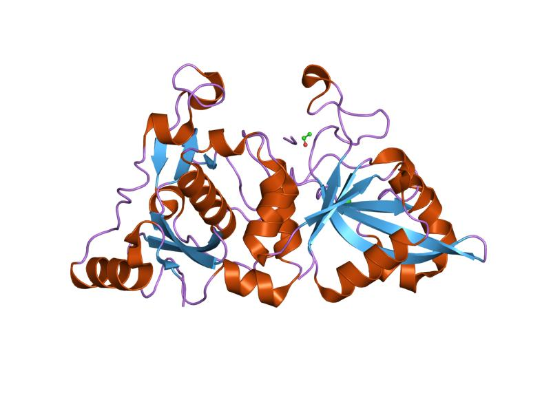 Cartoon representation of the molecular structure of protein registered with 1tl9 code.